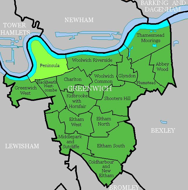 Map of the electoral wards of the London Borough of Greenwich. The Peninsula ward is highlighted in a lighter green.